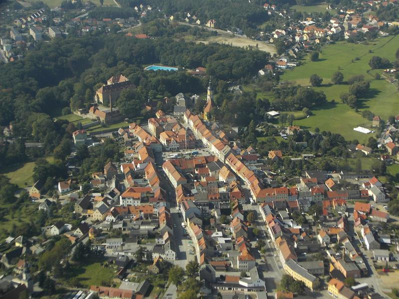 Aerial view of Königsbrück (Saxony) Hornjoserbsce: Lětarski wobraz Kinsporka z měšćanskim centrumom, hrodom a hrodowym parkom.